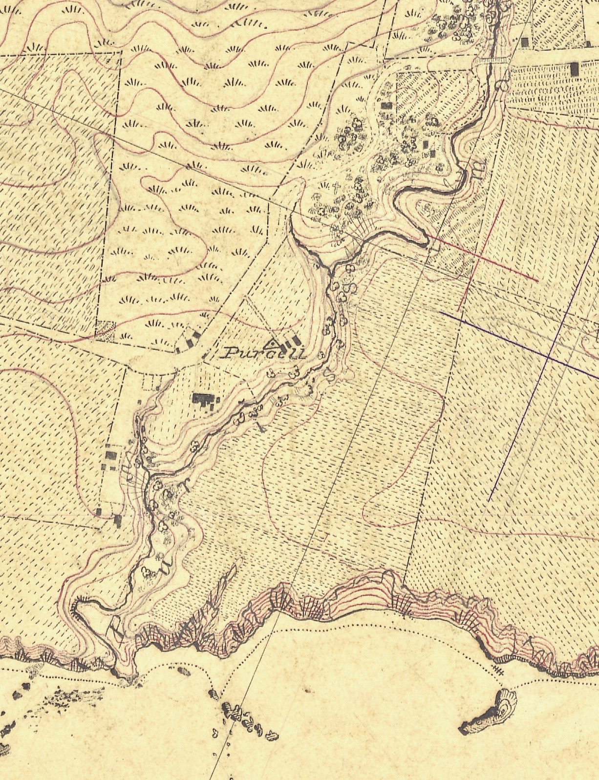 North is to the left showing homes, farms, outbuildings, fields, and cemetery on the main coastal highway